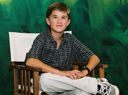 Haley Joel Osment (born 1988) is an Academy Award -nominated American actor. He came to fame with his starring role in "The Sixth Sense" (1999). He subsequently had leading roles in several high-profile Hollywood films, including "Pay It Forward" and Spielberg 's "A.I." - the photo was taken at the press conference for the world premiere of that movie in Venice 2001.